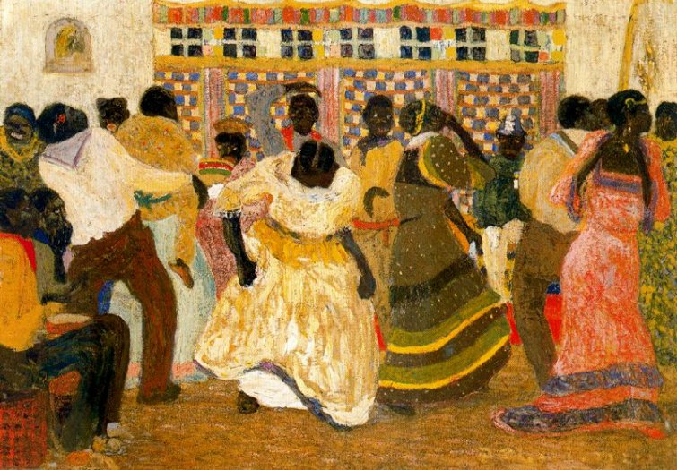 Representation of a Candombe dance in Montevideo